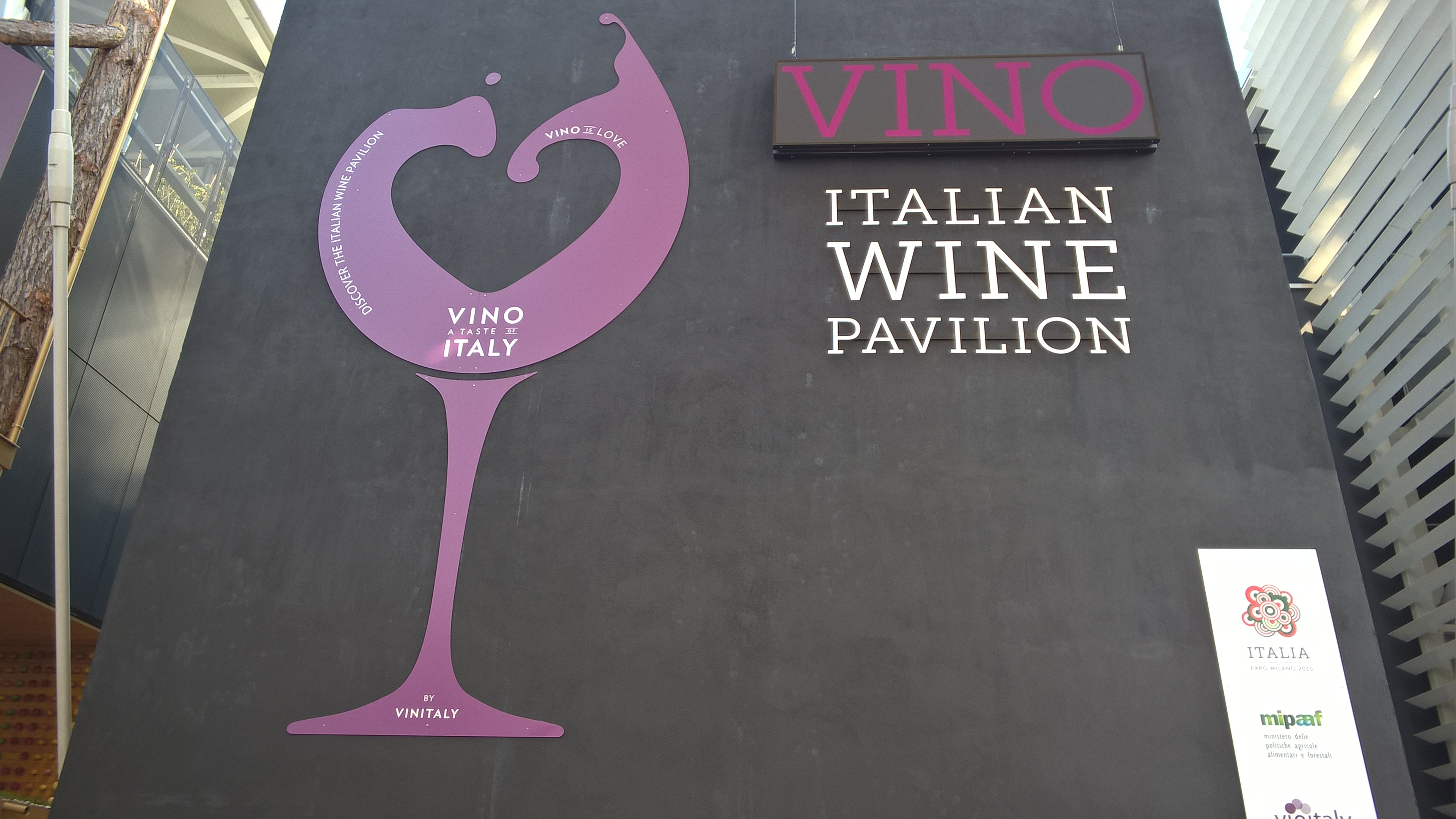 Italian Wine pavilion at Expo 2015 Milano